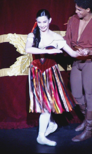 Tamara Rojo (with Carlos Acosta) in a Red Run curtain call after dancing George Balanchine's Tzigane. Taken at the Royal Opera House, Covent Garden on 04/03/08